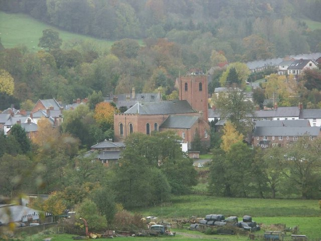 St Mylin's Church, Llanfyllin Picture taken from near the Cemetery.